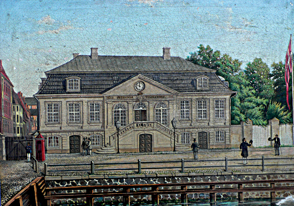 The demolished Øresunds Toldkammer Building in Helsingør, Denmark